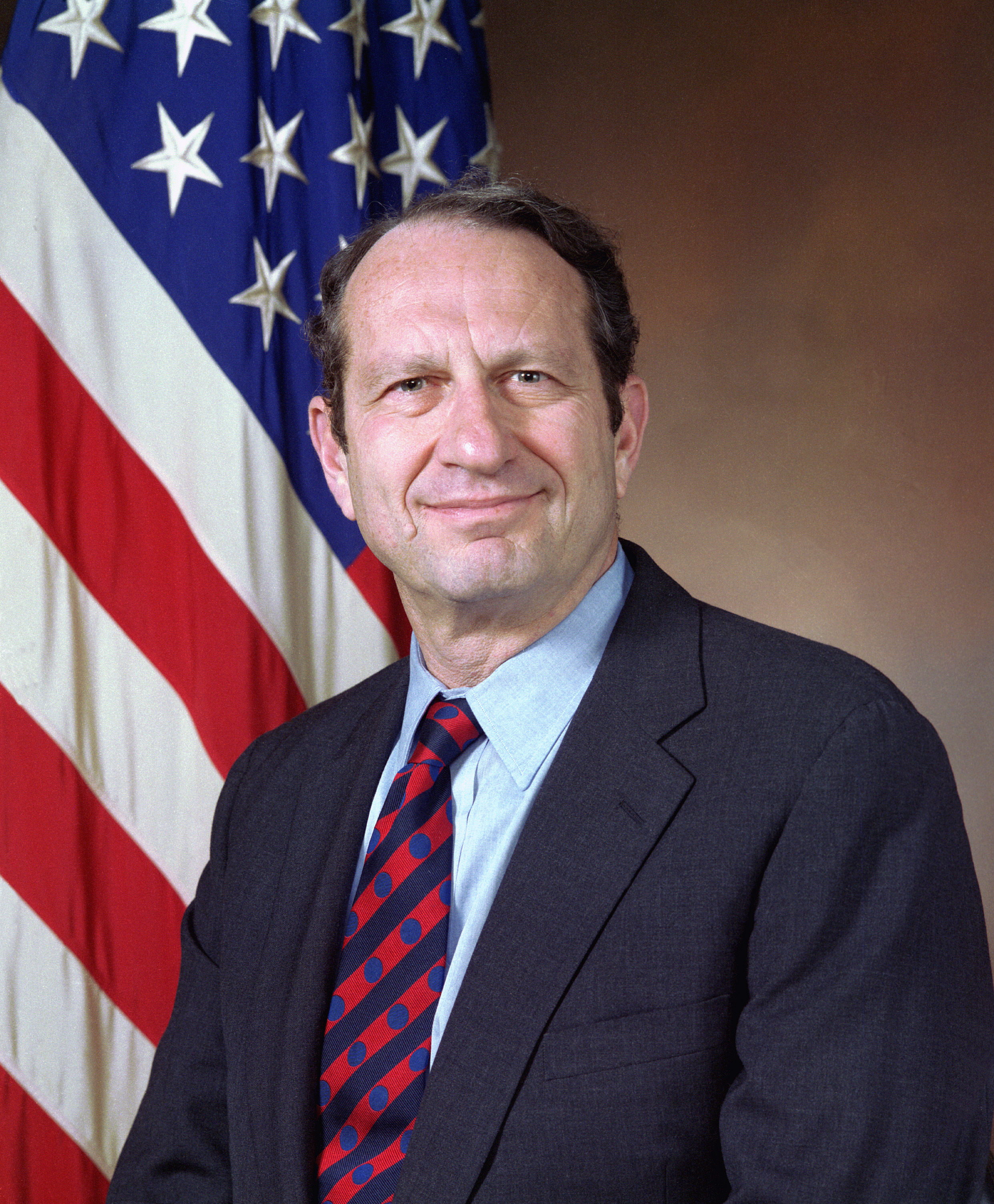 John Deutch, former Undersecretary of Defense and Director of the CIA.